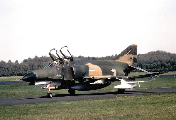 F-4E Phantom 72-0165 of the 496th TFS/50th TFW Hahn AB Germany